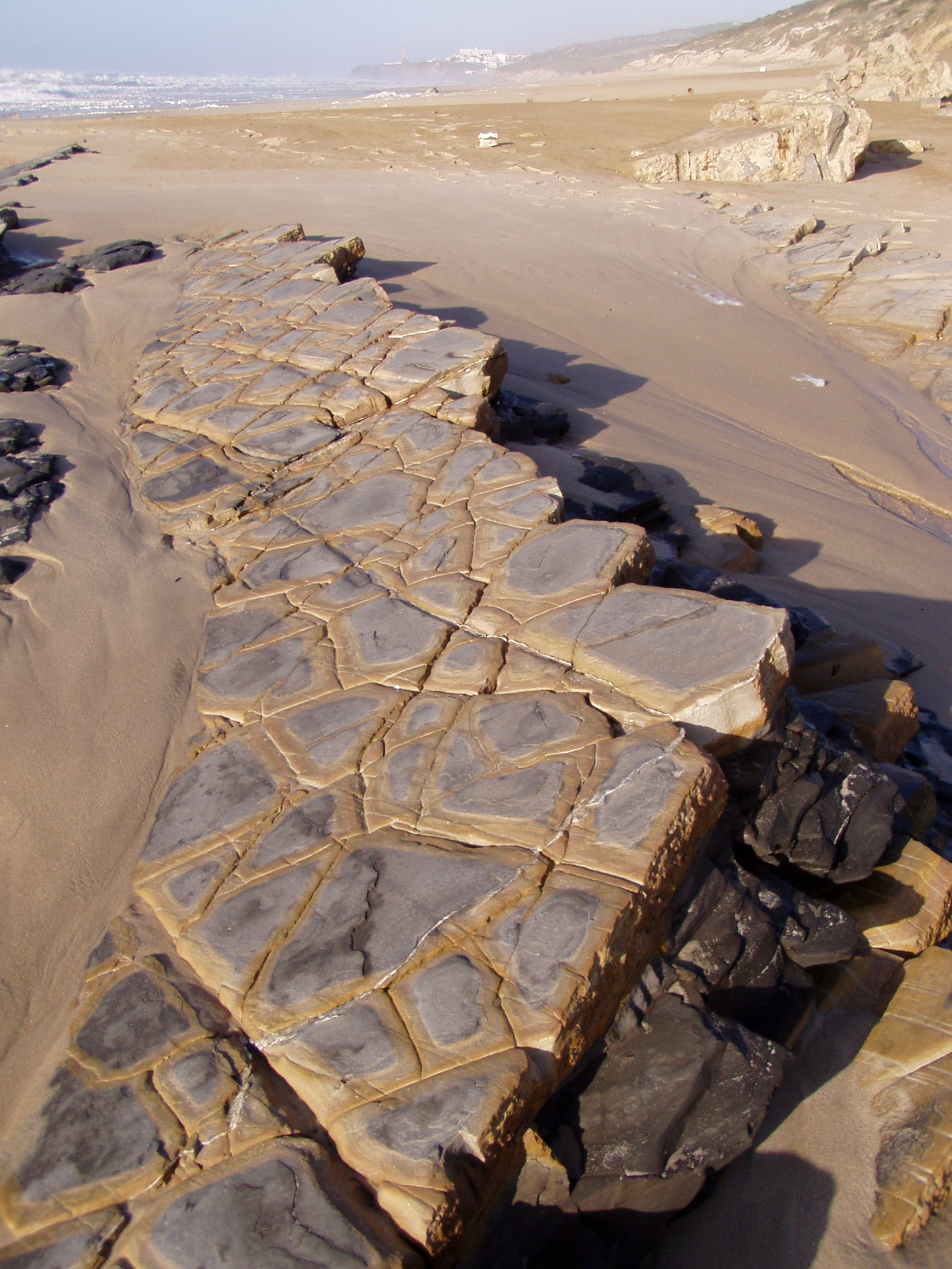 Natural Limestone pavement outcrop — at São Pedro de Muel beach, Marinha Grande, Portugal. Karst topography example.